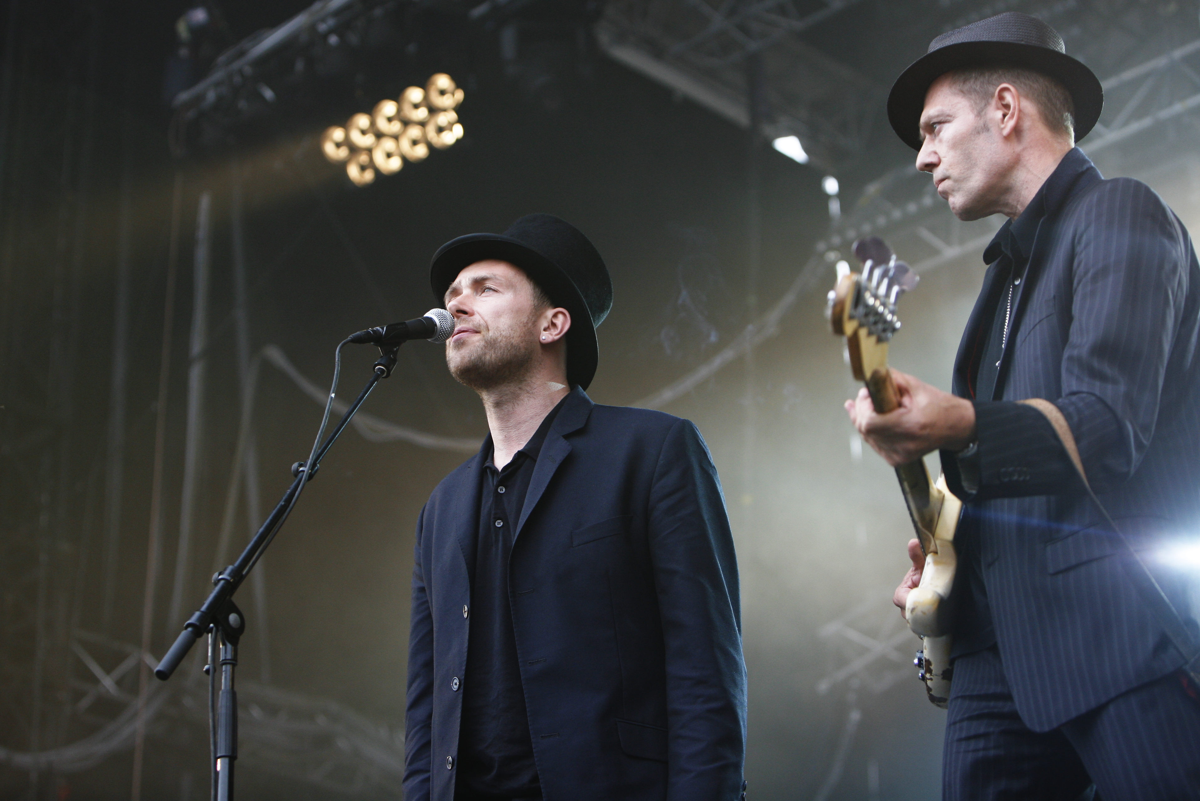 The Good, the Bad and the Queen at the Eurockéennes of 2007